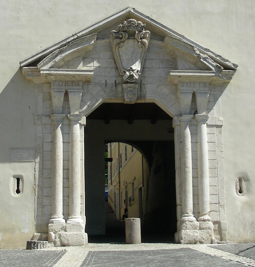 Sun's Gate (Porta del Sole) in Palestrina, province of Rome, the passage